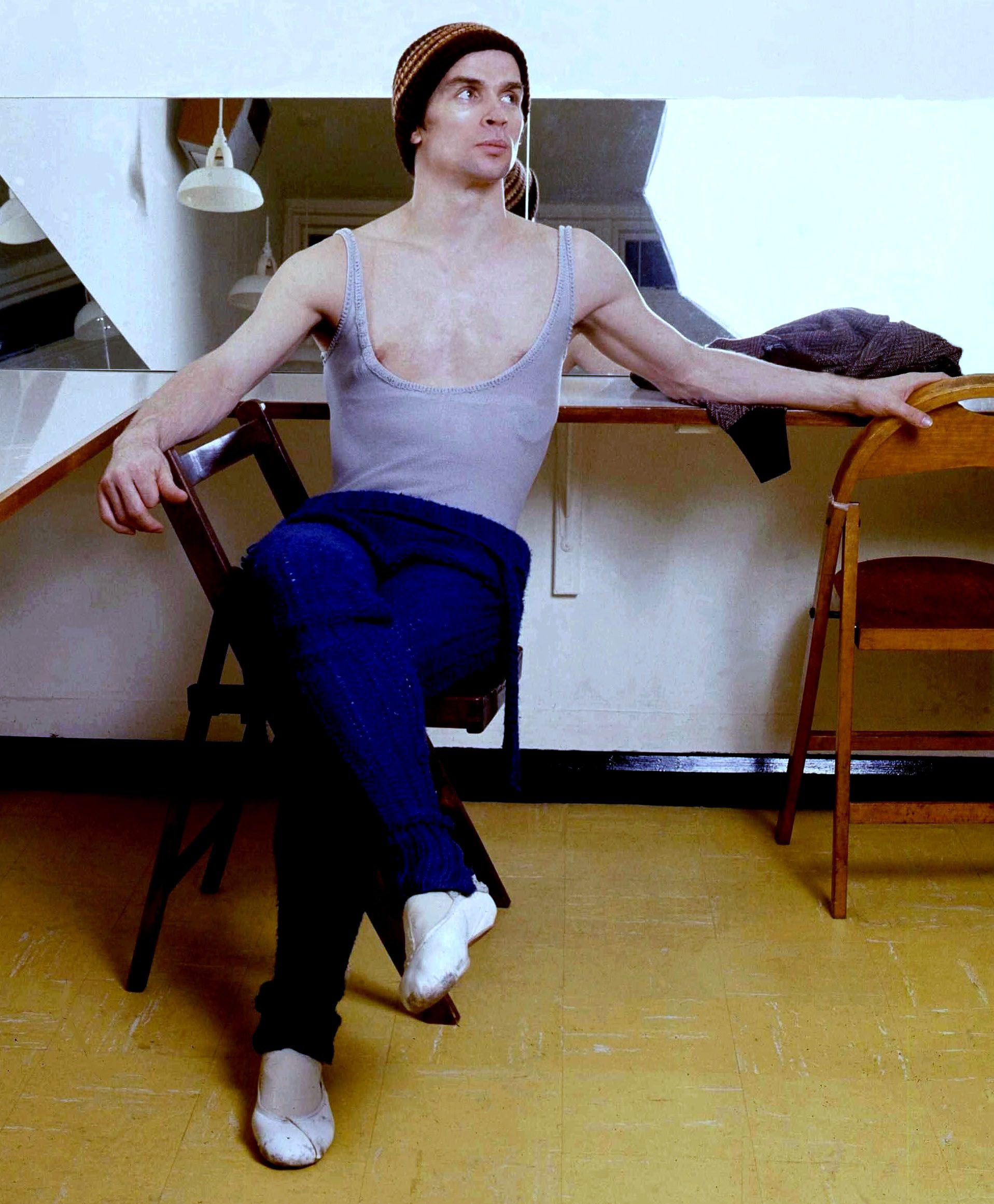 Nurevey in his dressing room